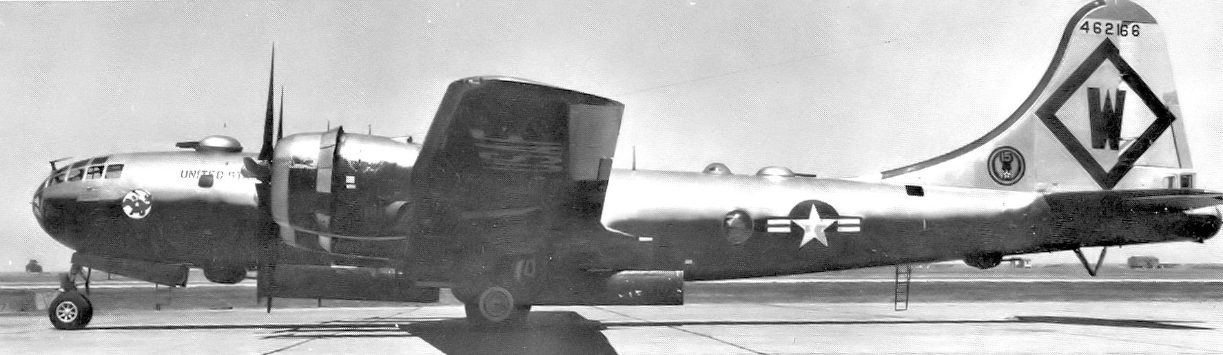 92d Bombardment Group Boeing B-29A-65-BN Superfortress 44-62166 1946 Smoky Hill Army Airfield, Kansas, Has 326th Bomb Squadron Emblem in front. Later assigned to the 307th BW, aircraft crashed near Ocho-o, South Korea due to engine fire Jul 22, 1952.